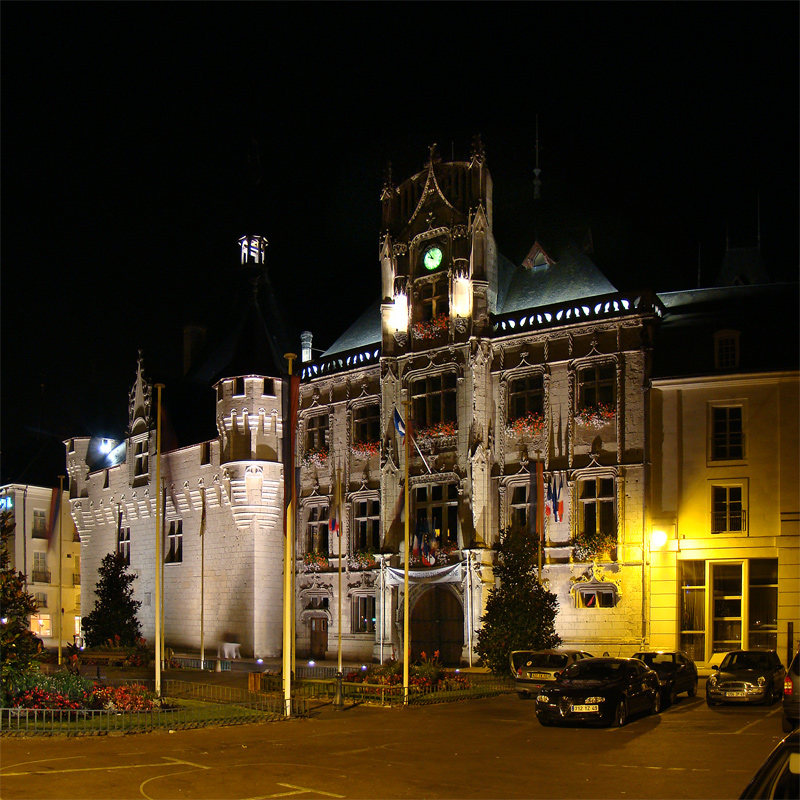 The Saumur City Hall, Maine-et-Loire, Pays de la Loire, France.